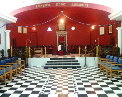 Photo taken Dec 9, 2012, this image shows the interior of the Masonic Lodge Hall in Larnaca, Cyprus. Grand Lodge of Cyprus